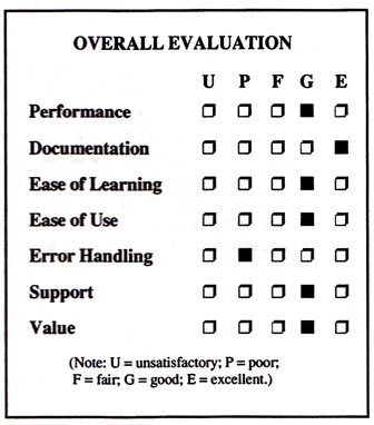 Evaluation check boxes for software reviews